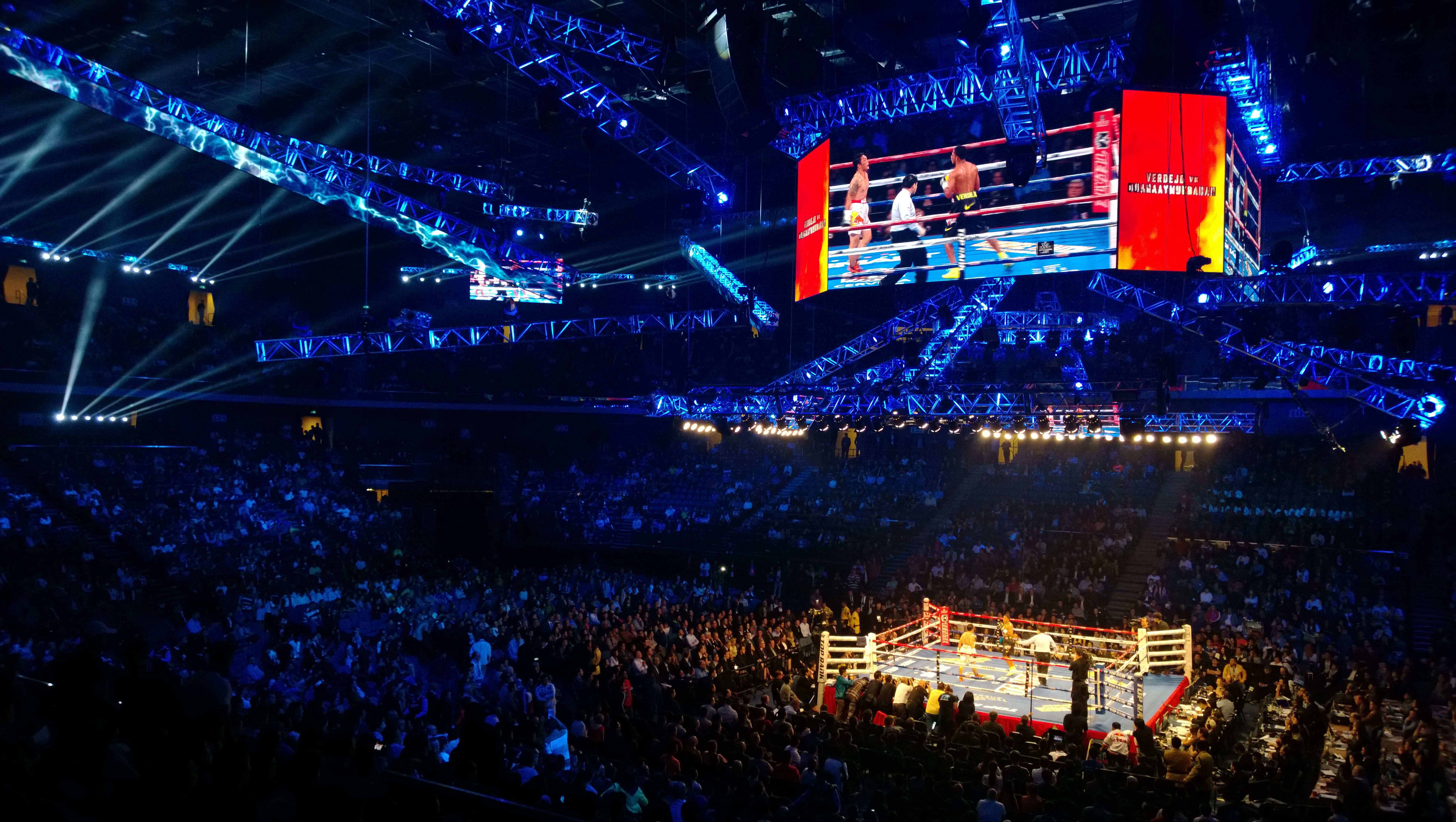 Félix Verdejo vs. Petchsamuthr Duanaaymukdahan at Cotai Arena, Venetian Resort, Macao, Macao S.A.R., China on November 24, 2013.